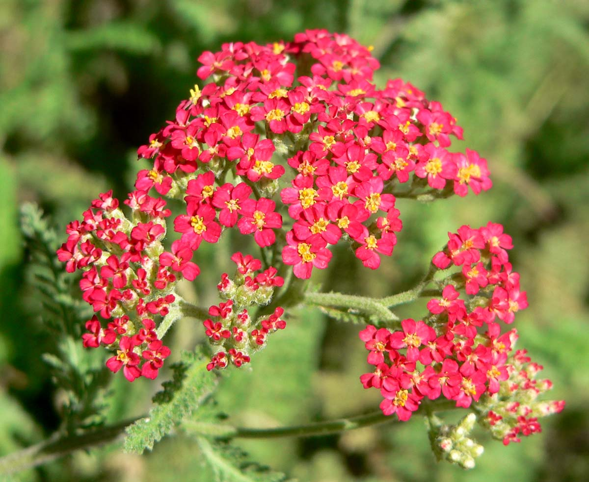 Photo of Achillea millefolium 'Paprika' at the Springs Preserve gardens in Las Vegas, Nevada